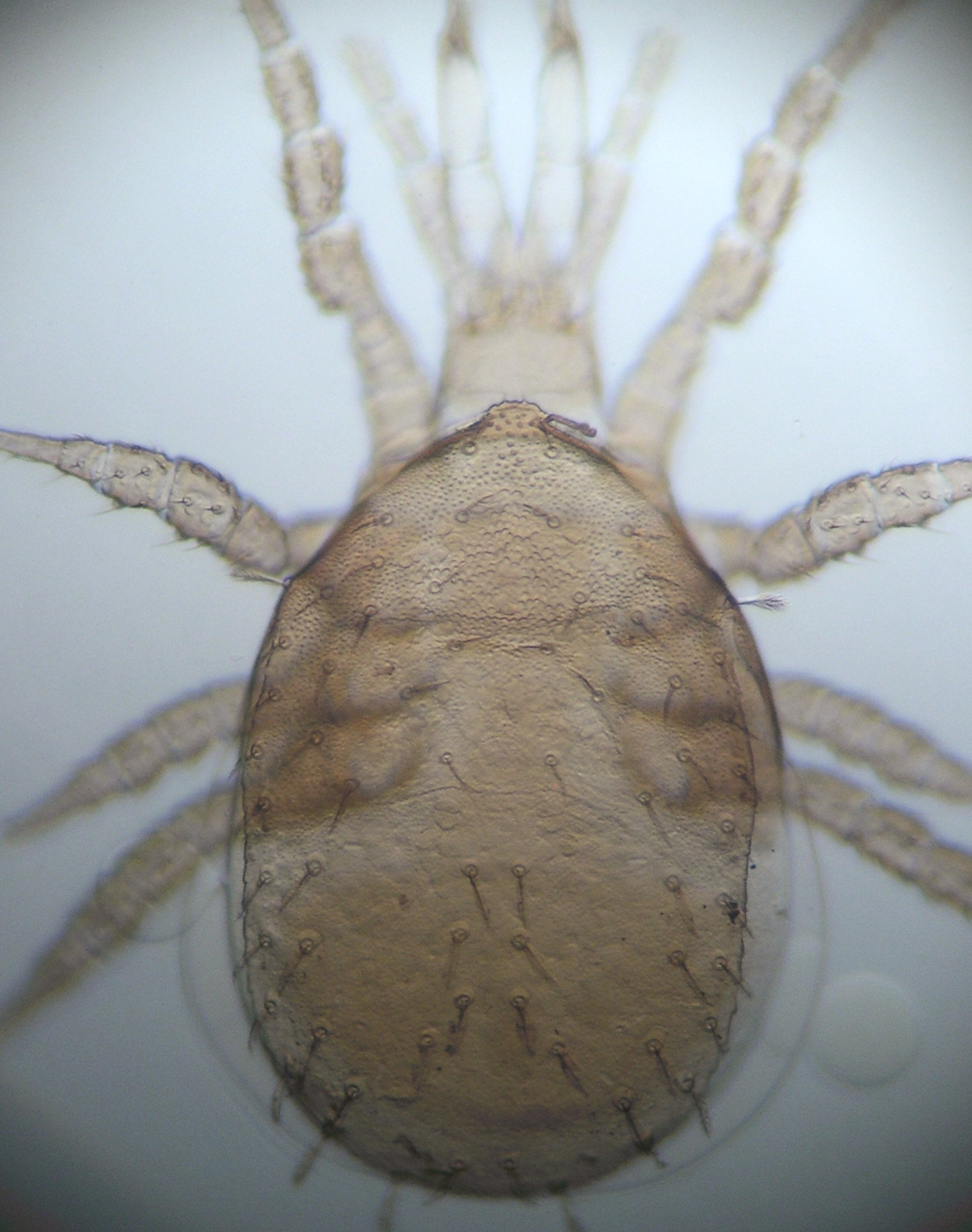 Weibchen von Zercoseius spathuliger